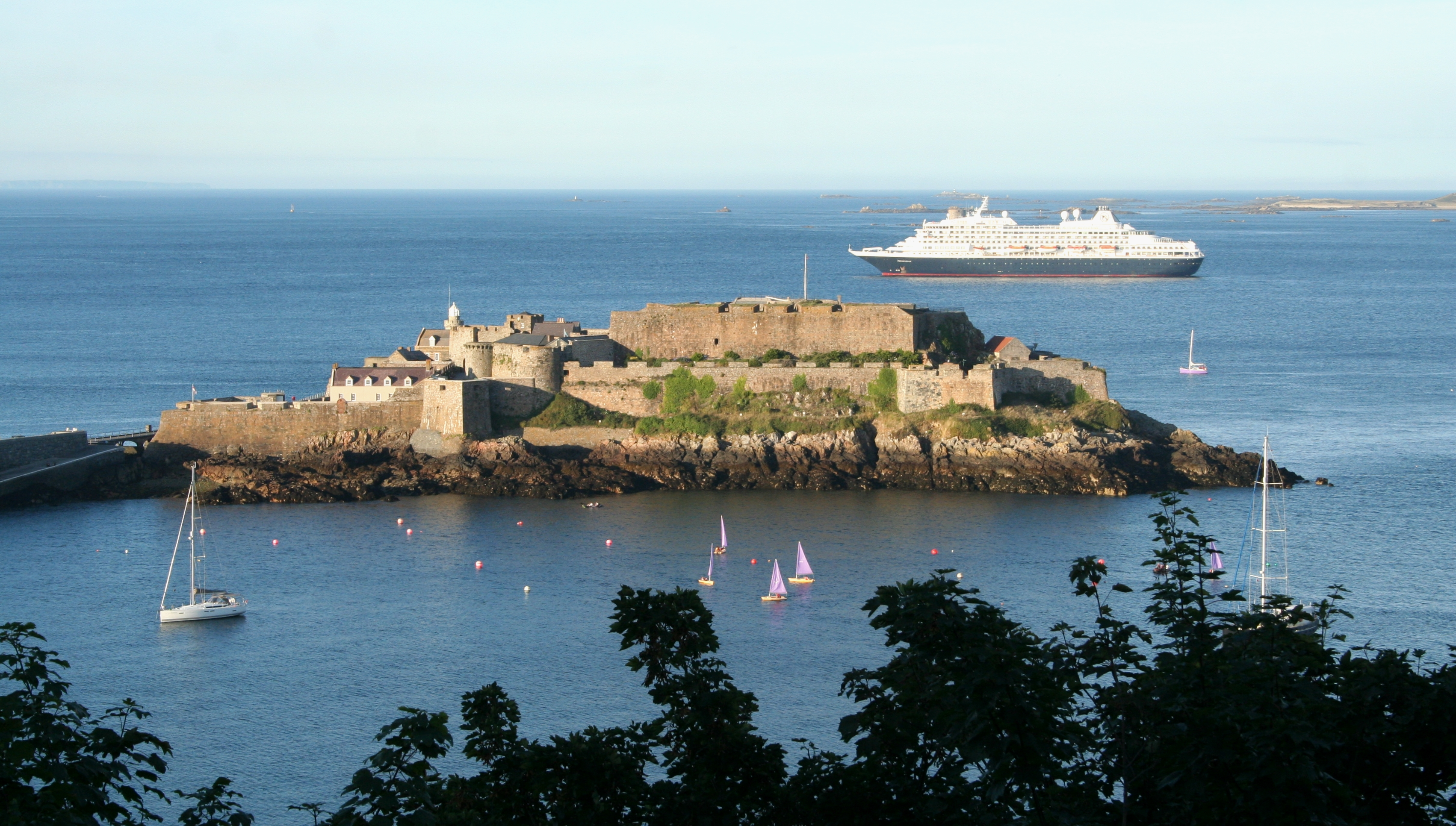 Photograph of Castle Cornet in Guernsey, as of August 2013. Cruise ship in the background is Ms Prinsendam (1988) of the Holland America Line.